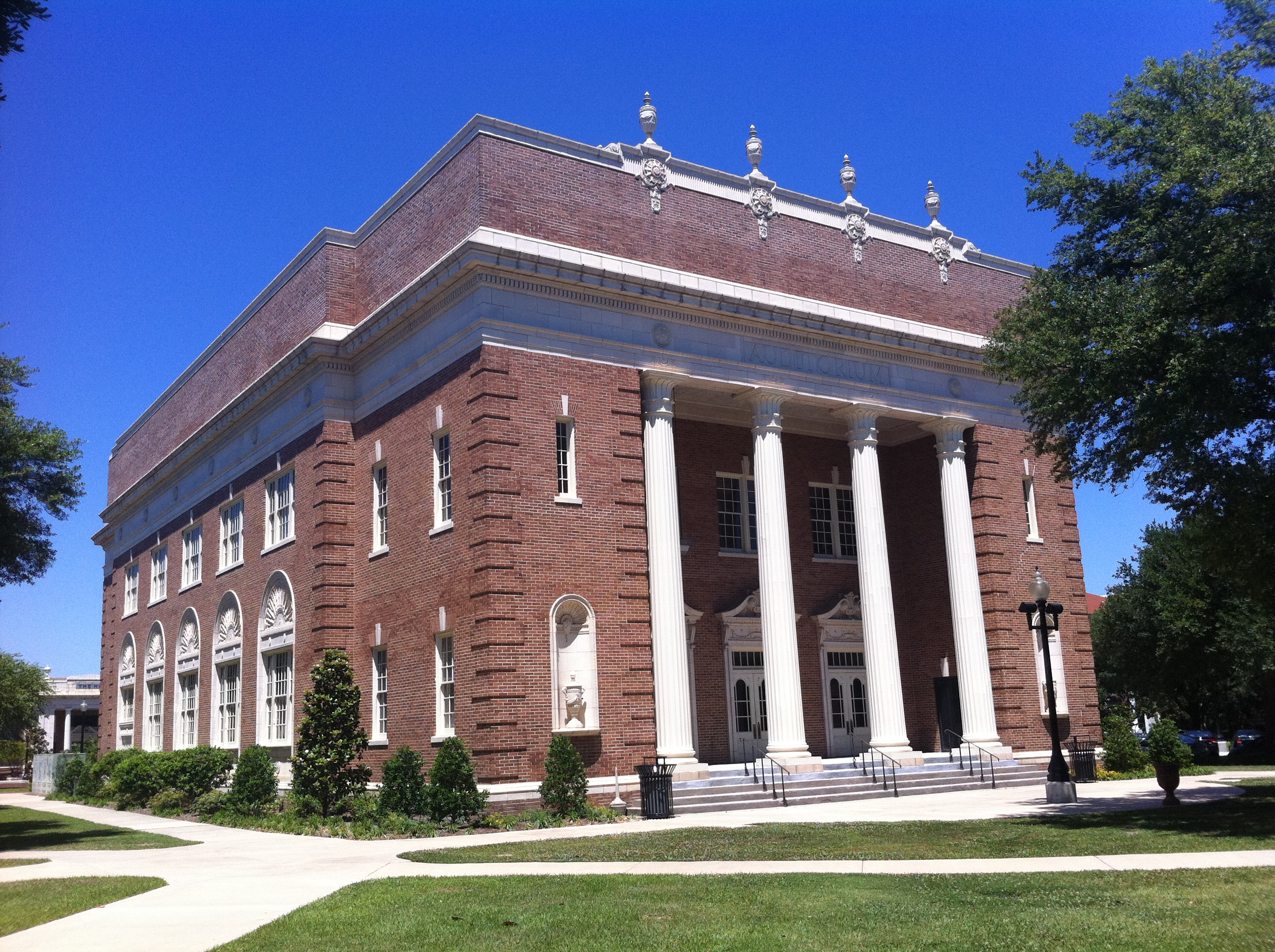 Bennett Auditorium on the campus of the University of Southern Mississippi in Hattiesburg, Mississippi. It is part of the University of Southern Mississippi Historic District, listed on the National Register of Historic Places.